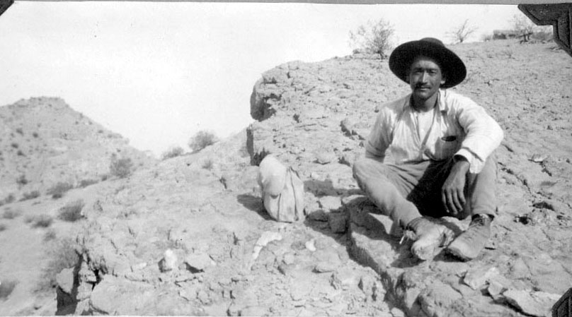 Felipe Mendez at Armadillo prospect. Puerta Corral Quemado. 1926. Name of Expedition: 2nd Captain Marshall Field Paleontological Expedition Participants: Elmer S. Riggs (Leader and Photographer),Robert C. Thorne (Collector), Rudolf Stahlecker (Collector), Felipe Mendez Expedition Start Date: April 1926 Expedition End Date: November 1926 Purpose or Aims: Geology Fossil Collecting Location: South America, Argentina, Catamarca Original material: 5x7 inch Interpositive Digital Identifier: CSGEO69393 Learn more about The Field Museum's Library Photo Archives.